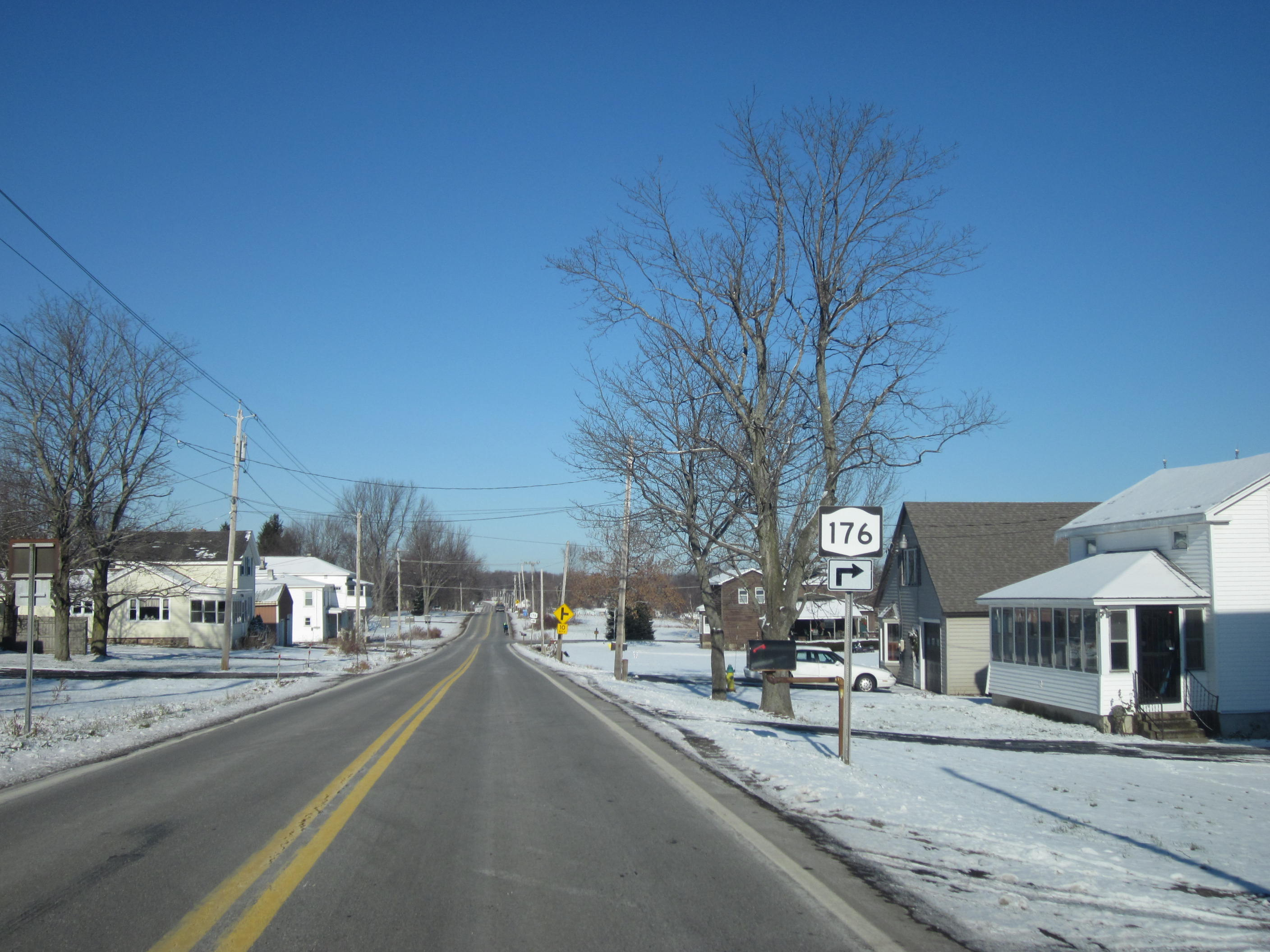 New York State Route 176 northbound through the hamlet of Bowens Corners.